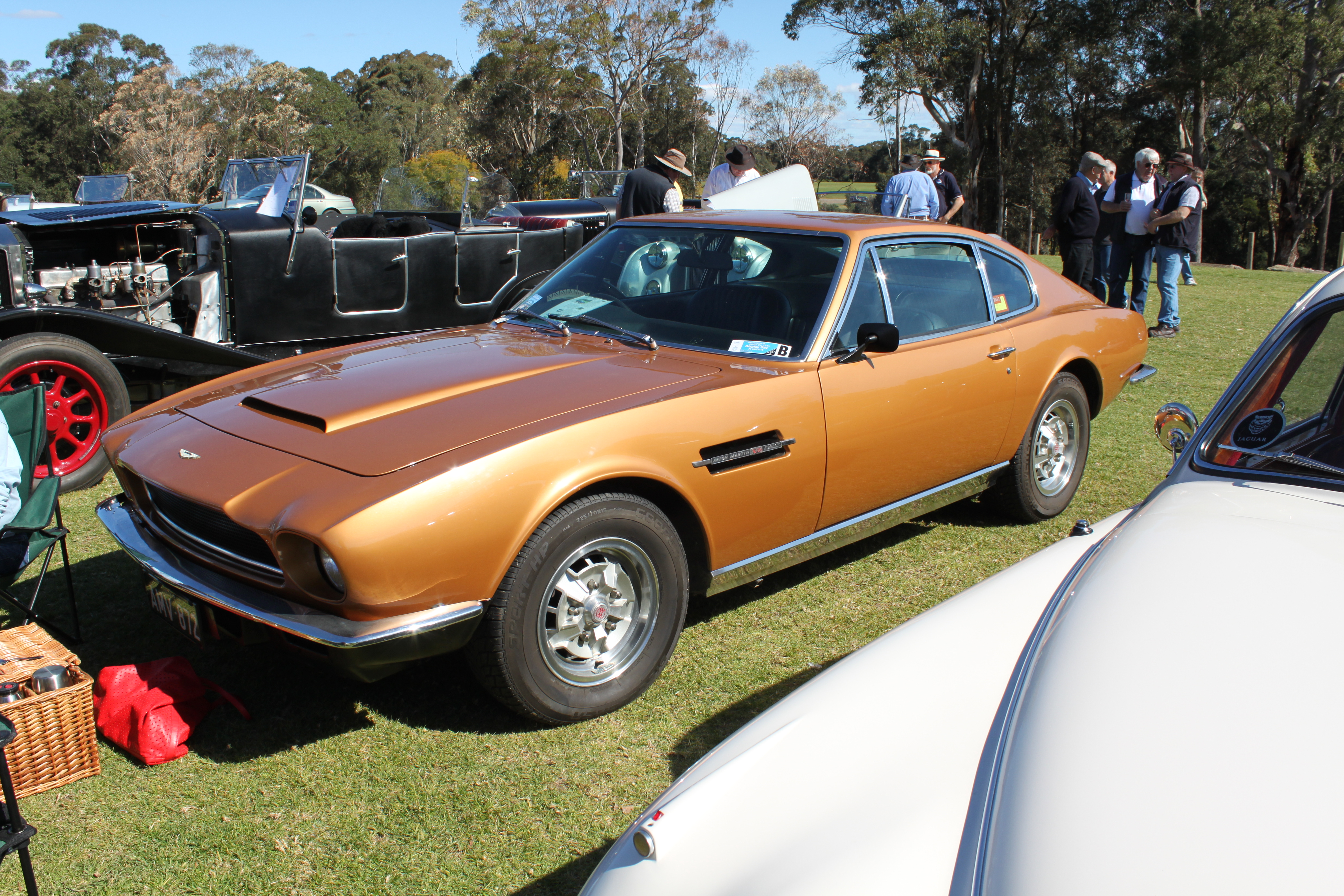 Aston Martin V8 DBS